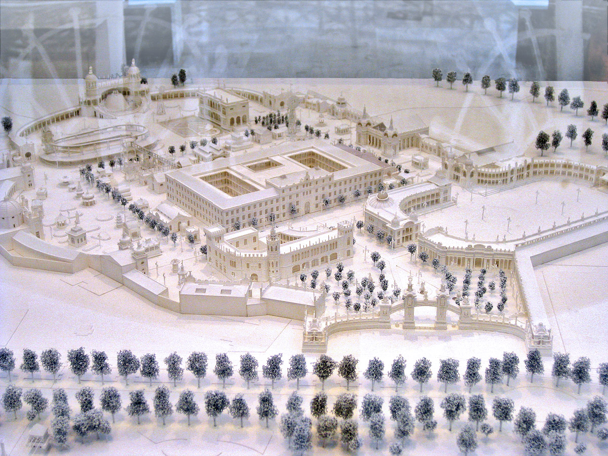 Photo of a model illustrating the Valencia 1909 exhibition